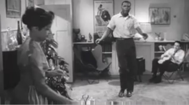 Screenshot of trailer for the 1957 film Edge of the City